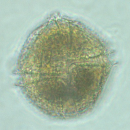 Ventral view of Lingulodinium polyedrum 900x magnification